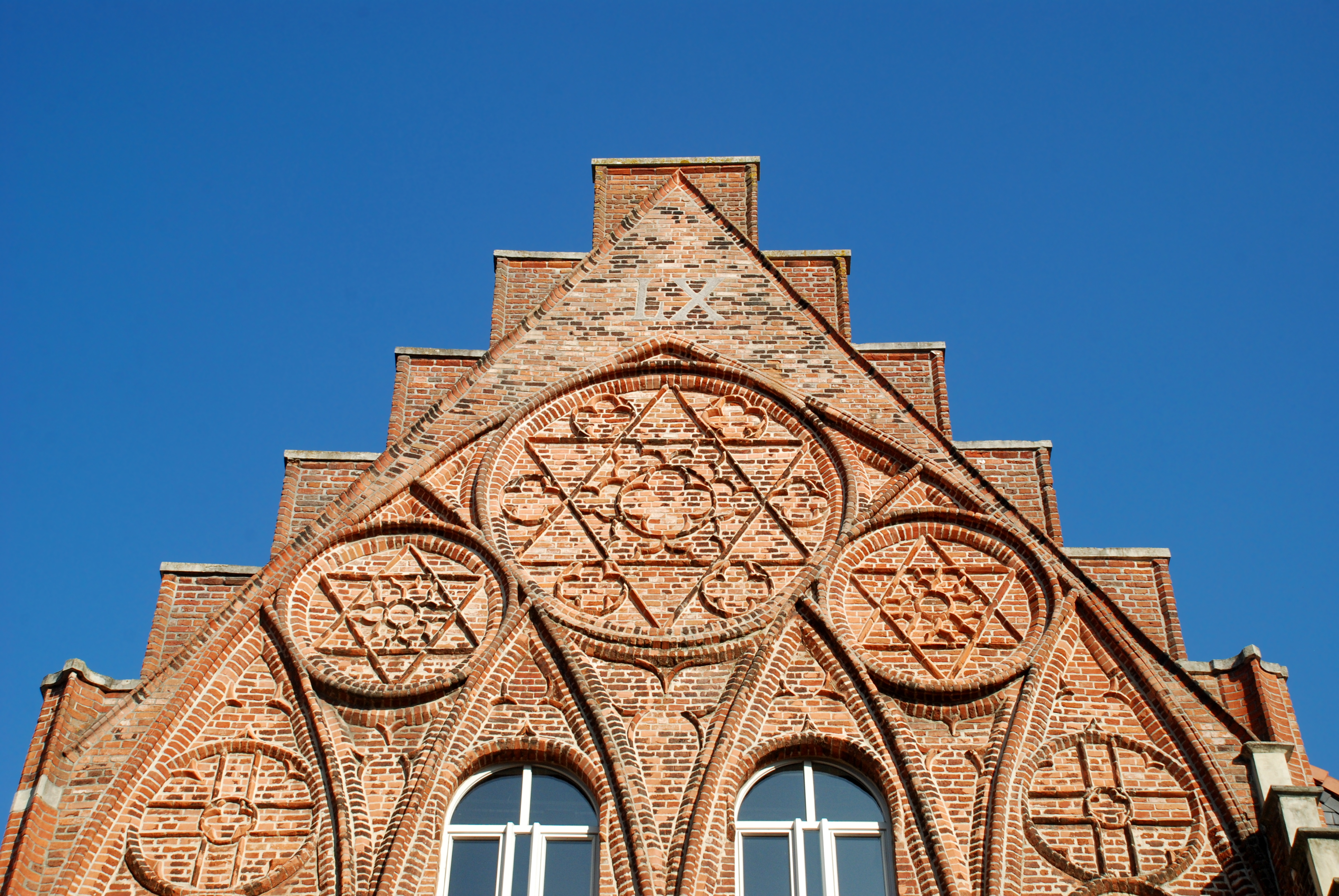 Belgium - Leuven - House van 't Sestich